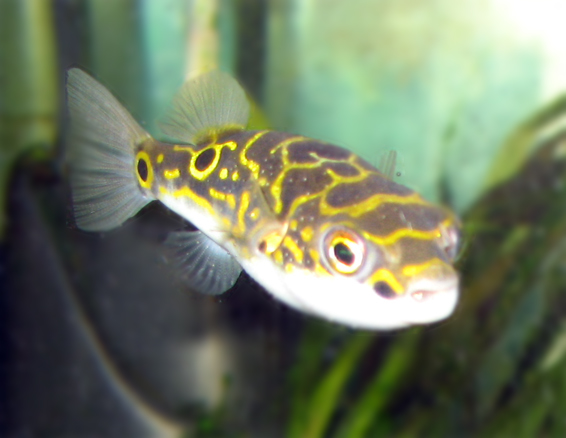 Tetraodon biocellatus, Figure Eight pufferfish